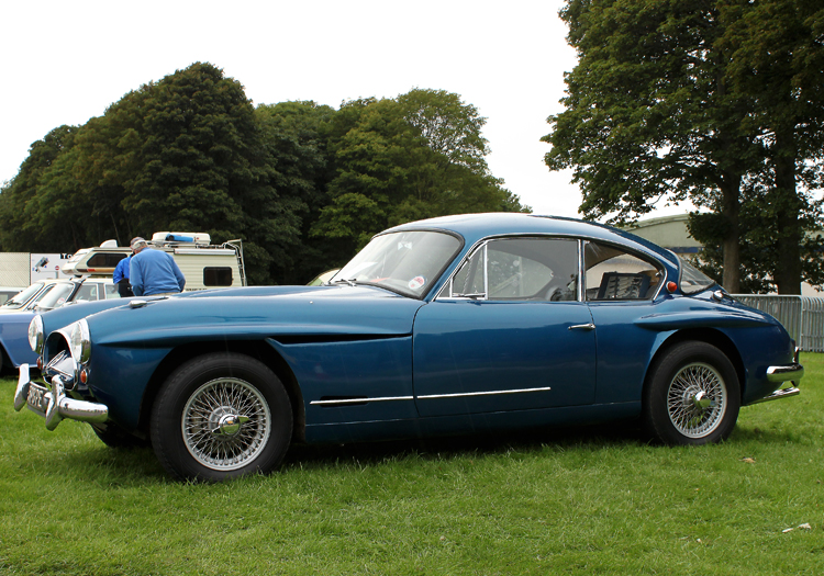 Jensen 541R Austin 3993cc straight 6 engine.